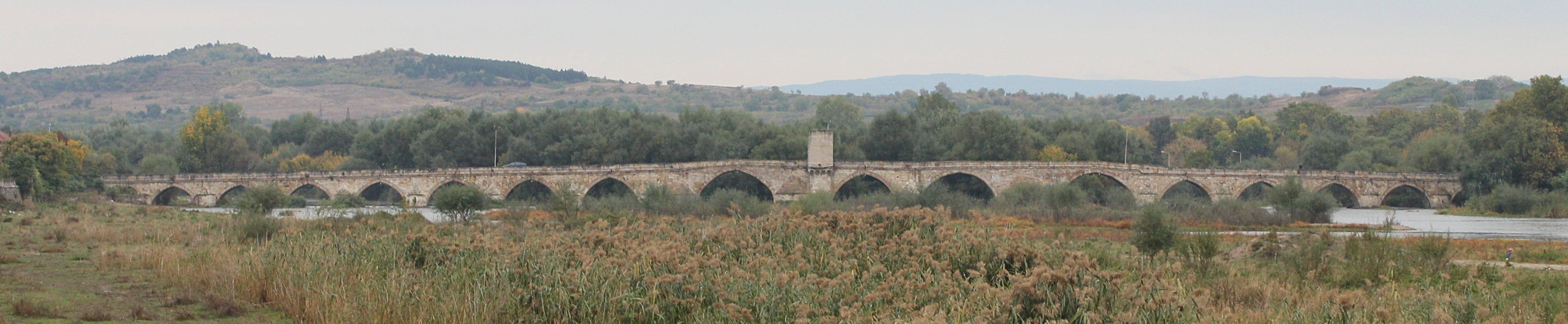 The Old Bridge in Svilengrad, Bulgaria